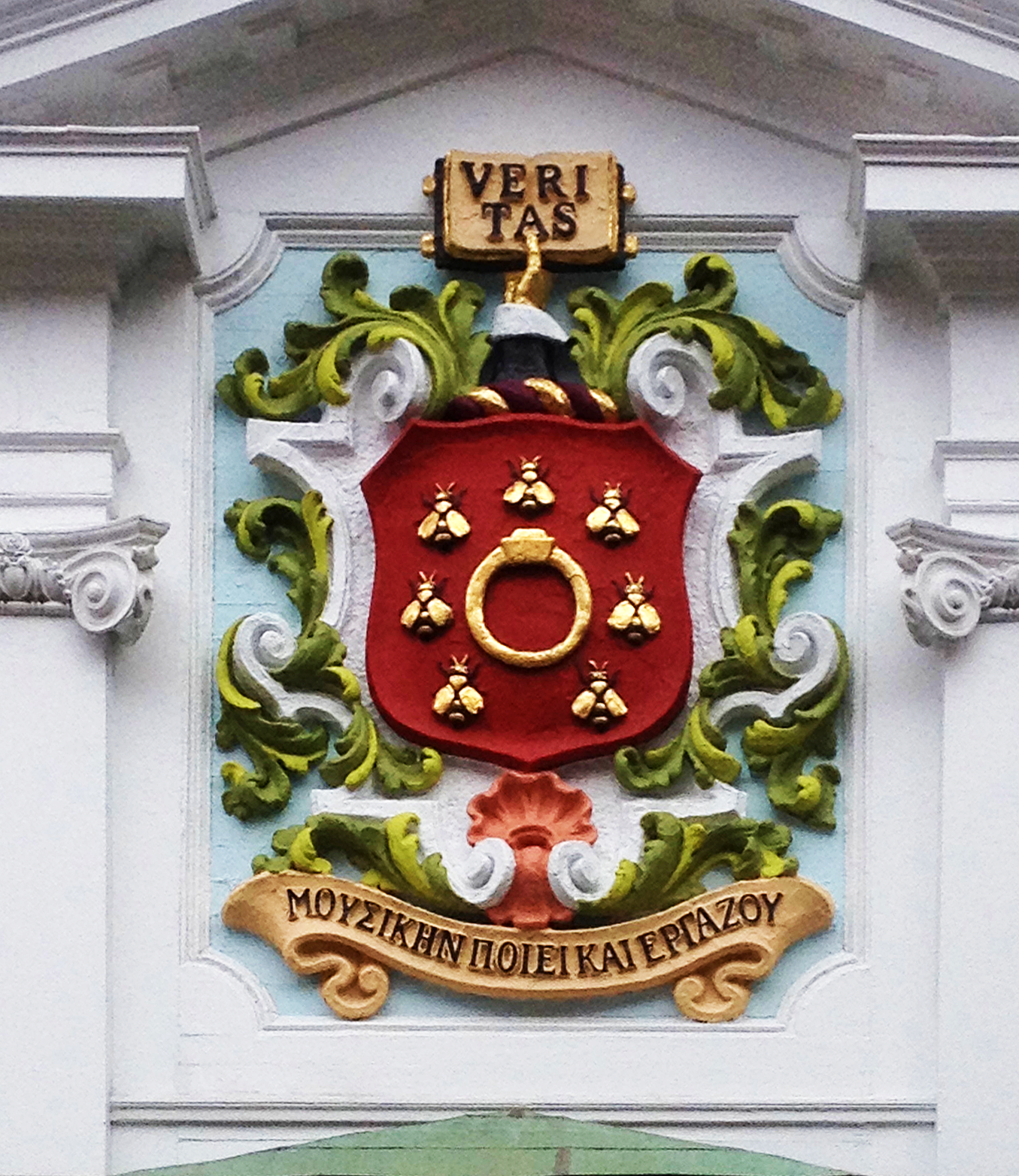 Signet Society plaster cartouche by heraldic artist Pierre LaRose, originally fabricated circa 1902; restored in 2014 by Mark Hruby [1], photographed with an iPhone 4S